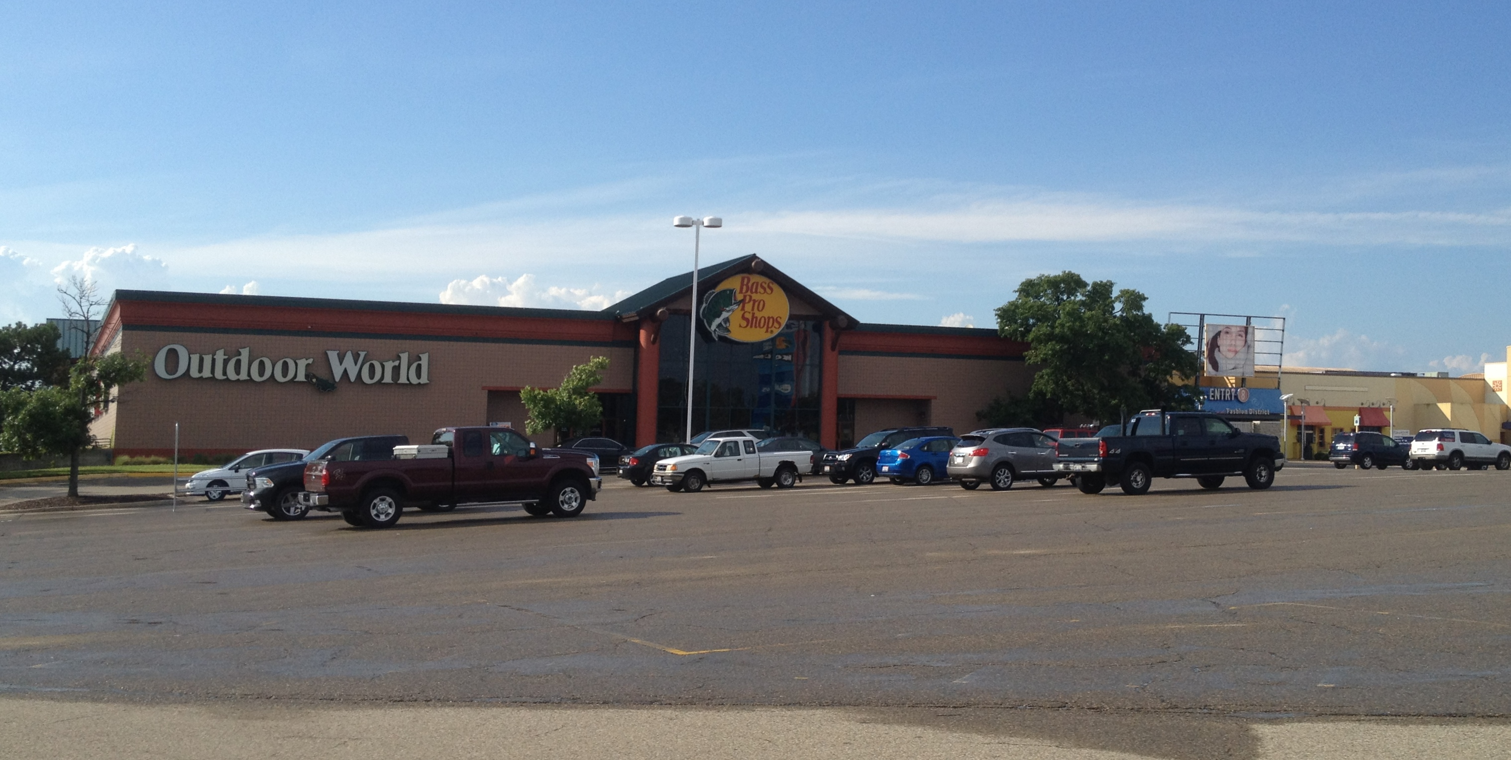 Bass Pro Shops - Cincinnati Mills Mall